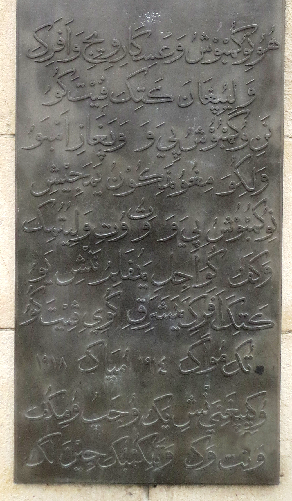 Askari Monument Daressalaam, Text plate Swahili in Arabic letters : هُوُنِوُکُمْبُوْشُ وَعَشکَارِوِيِجِ وَاَفَرِکِ وَلِيُپِغَا نَ کَتِکَ قِيْتَ کُوُ نَنِ وُکُمْبُوُشُ پِيَوَ وَپَغَا زِاَمْبَوُ وَلِکُوَ مِغُوُنَمِ کُوْنُ يَمَجِيْشِ نِوُکُمْبُوْشُ پِيَ وَ وَتُ وُتِ وَلِيُتُمِکَ کَتِکَ اَفَرِکَ يَمَشَرِقِ کُوِيِ ڤِيْتَ کُوُ تُکَ مُوَکَ ١٩١٤ مُپَاکَ ١٩١٨ وُکِيِپِغَنِيَ نْشِ يَکُ وُجَپُ وُمِکُفَ وَنت وَکُ وَتَلِکُمْبُکَجِيْنَ لَکُ